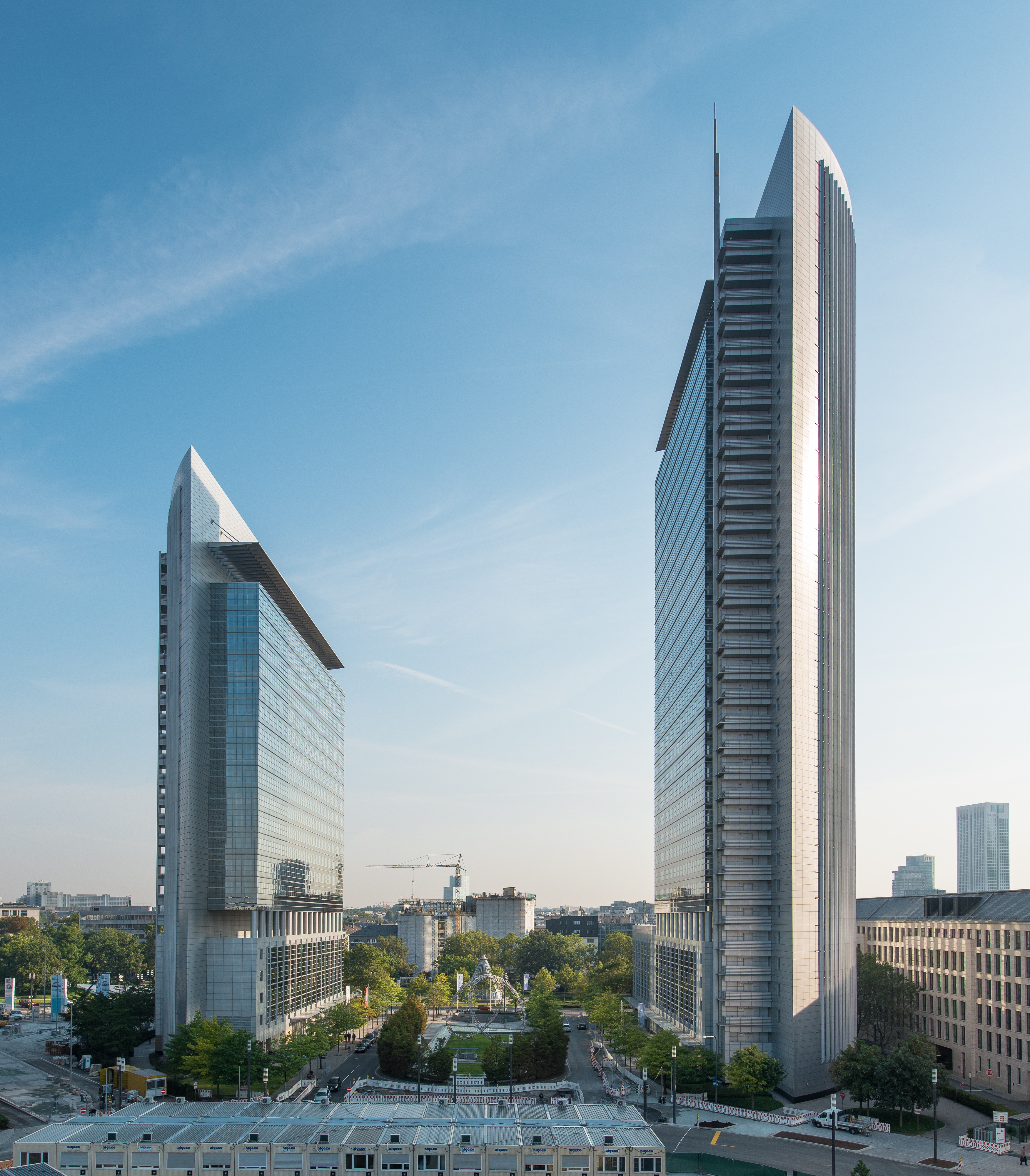 Frankfurt am Main, Kastor and Pollux highrises as seen from South-West (August 2013).